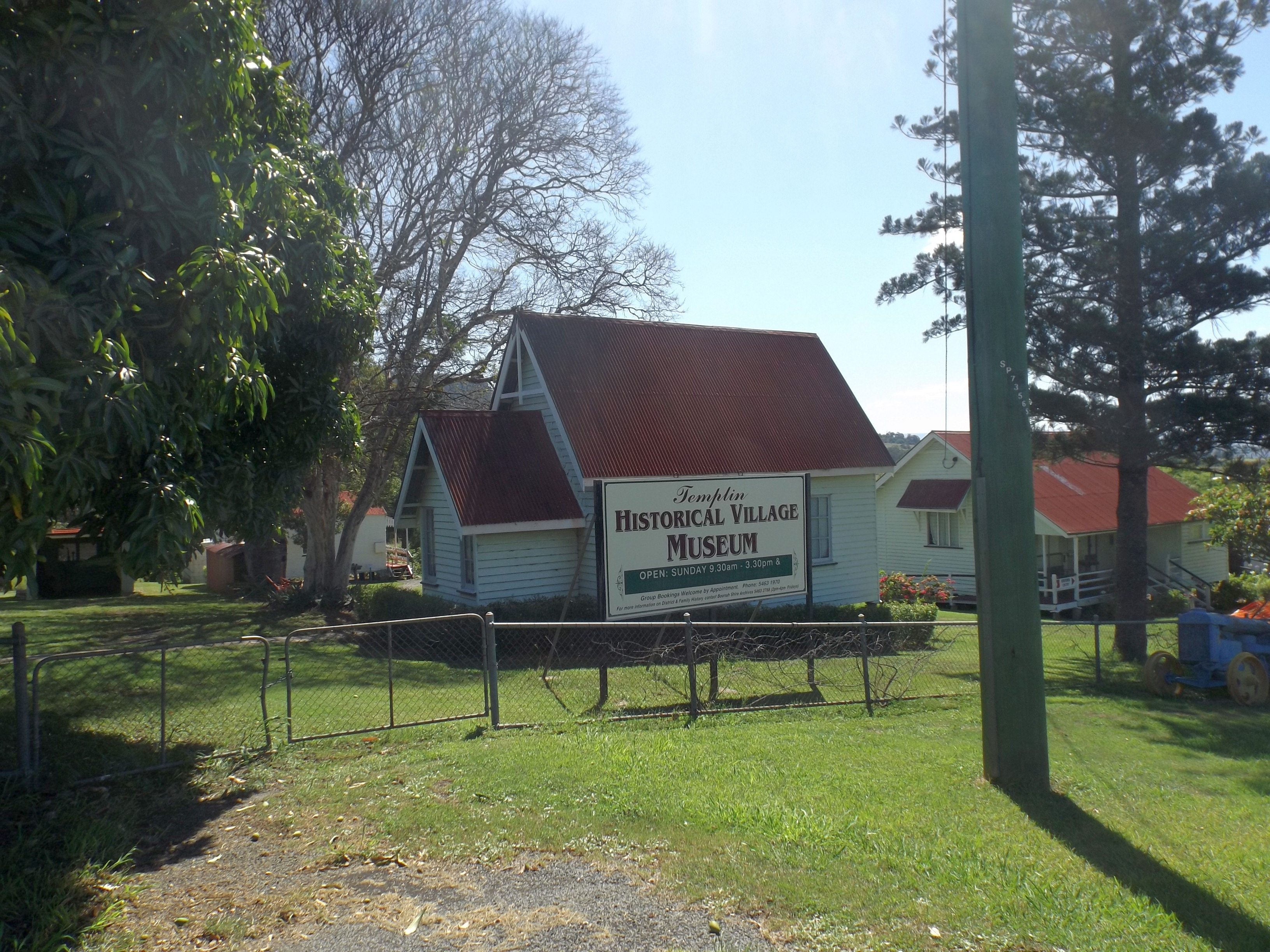 Photo of a building at Historical Museum at Templin, Queensland